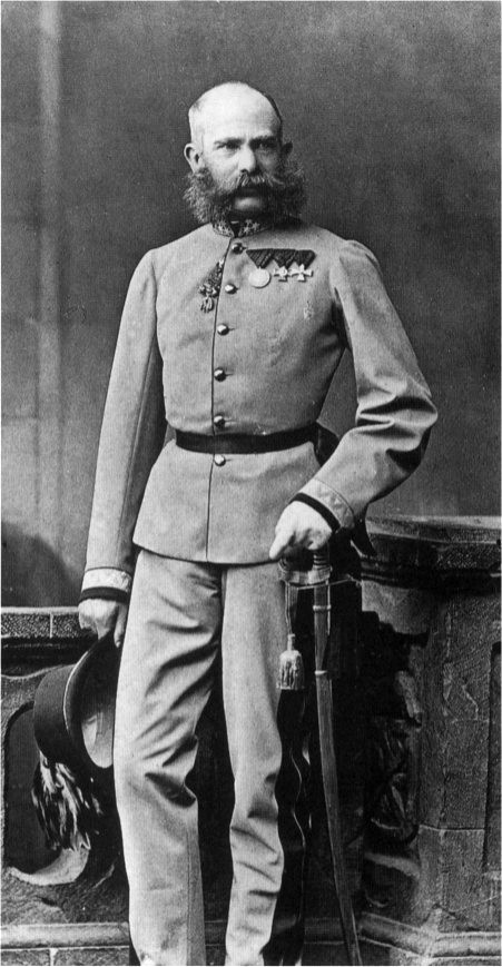 Emperor Fancis Joseph I. of Austria seen in the uniform of an Oberst (colonel) of the Kaiserjägerregiment